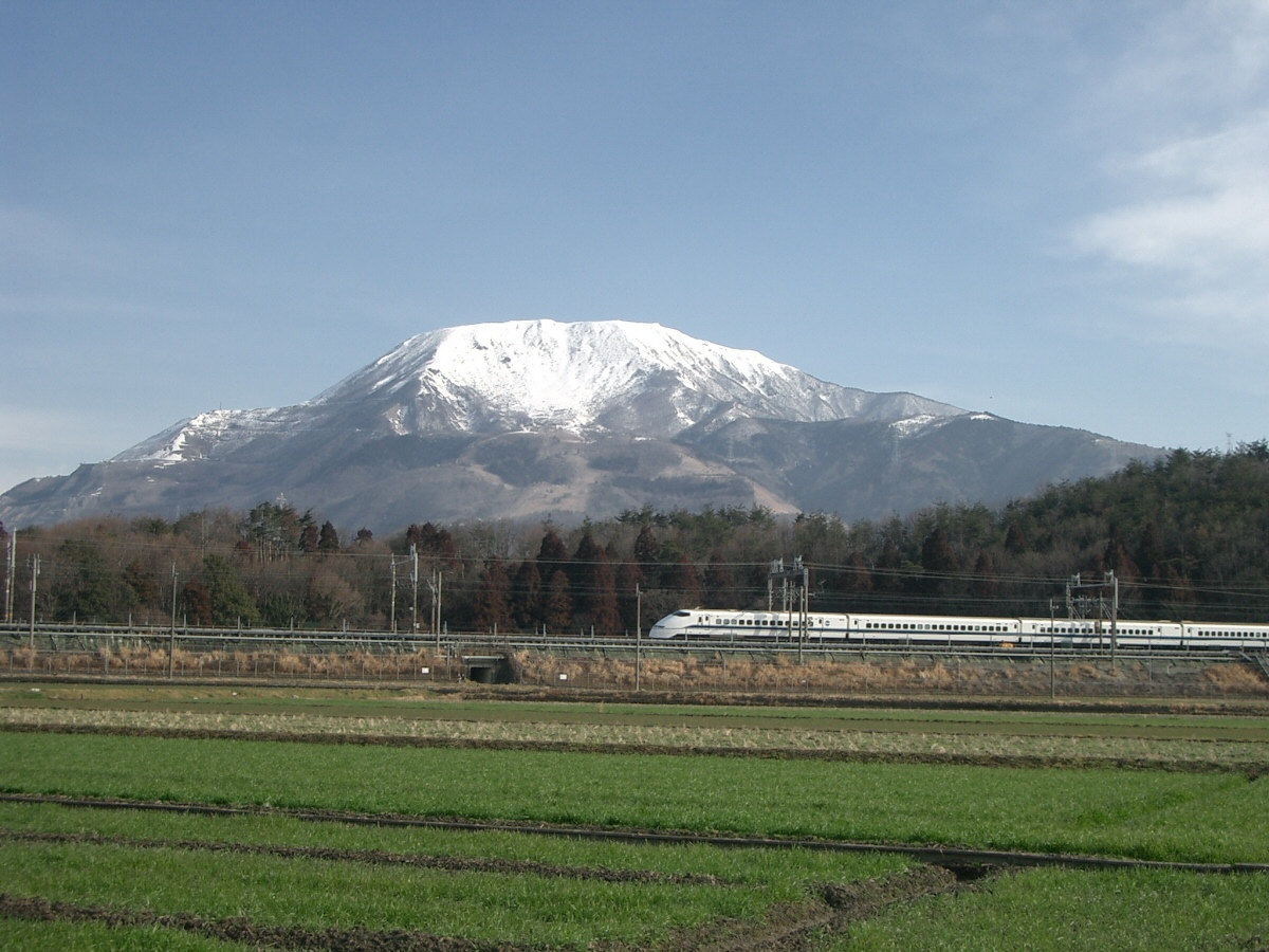 Mt.Ibuki with 300 Series Shinkansen.